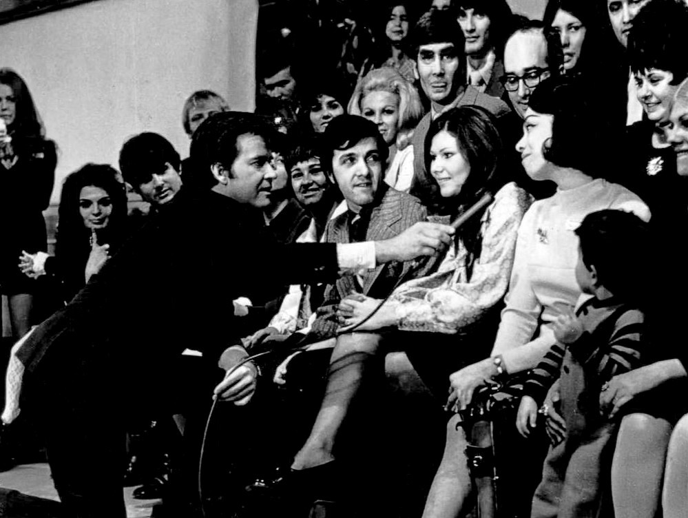 Photo of Dick Clark interviewing Myrna Horowitz, who was one of the original dancers on "Bandstand" when it began in 1952 on the television show's 17th anniversary in 1970.